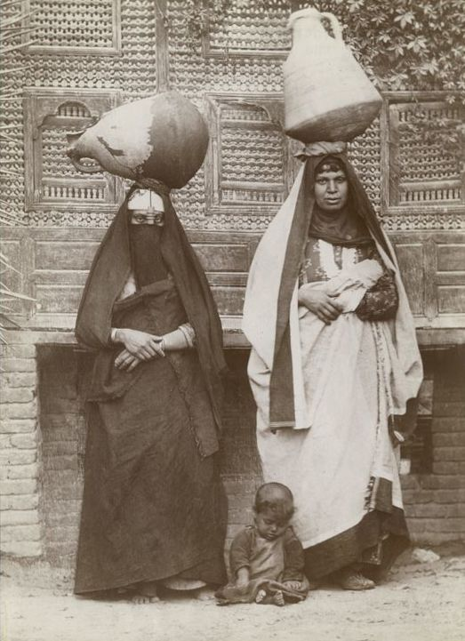 Digital ID: 88473. 1860s-1920s Notes: Typed on reverse and crossed out in pencil : The fellah women are geniuses in producing rising generations and foolish geese in rearing the brood. Source: [Photographs and prints of Egypt and Syria.] (more info) Repository: The New York Public Library. Photography Collection, Miriam and Ira D. Wallach Division of Art, Prints and Photographs. See more information about this image and others at NYPL Digital Gallery. Persistent URL: Rights Info: No known copyright restrictions; may be subject to third party rights (for more information, click here)